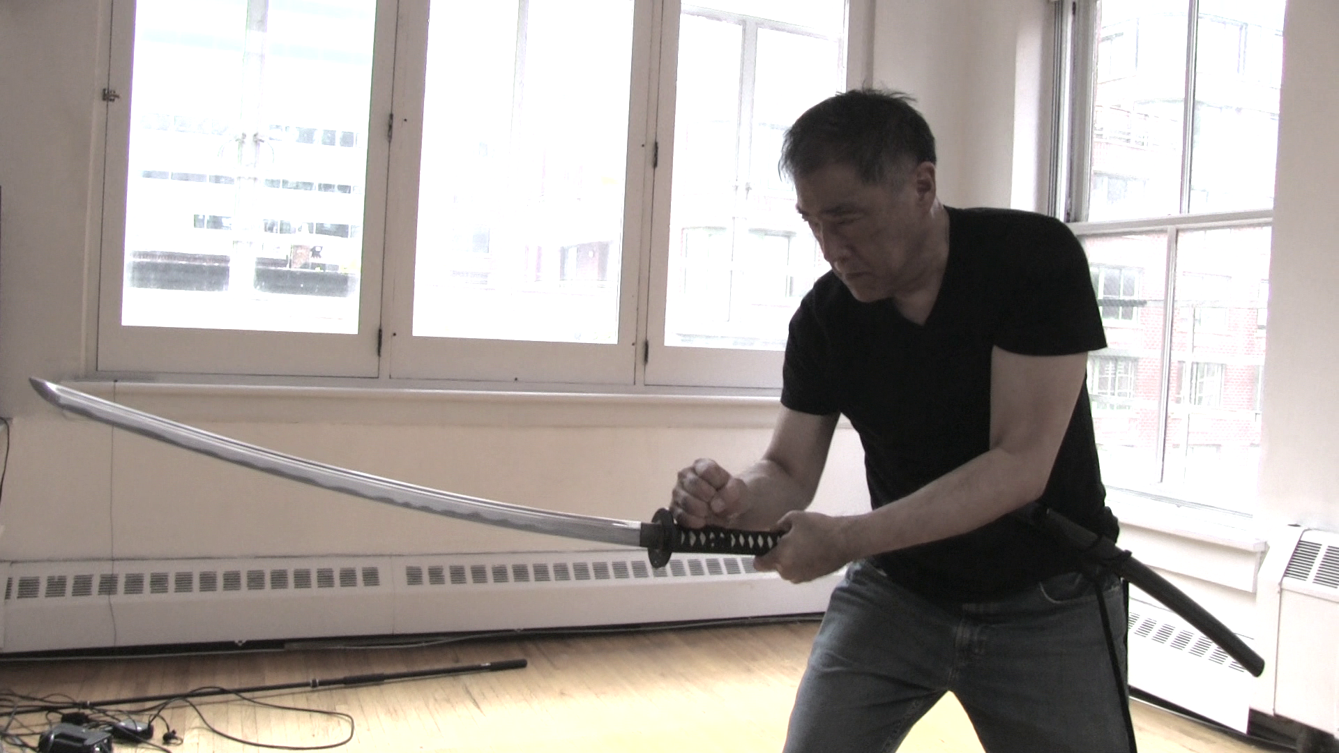 Larry Hama demonstrating correct sword while filming Ghost Source Zero